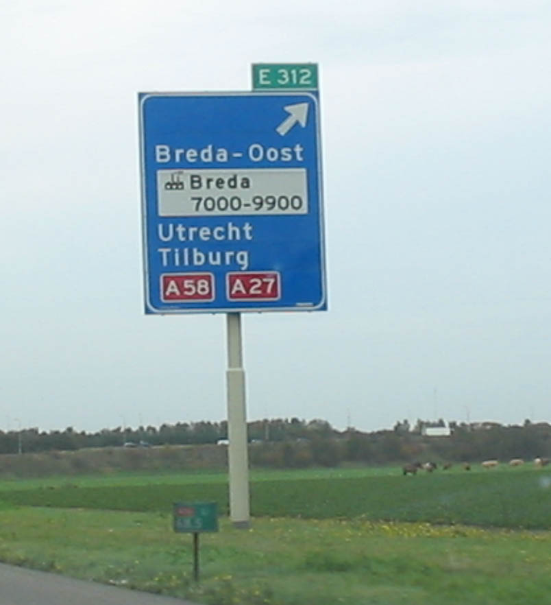 E312 bord